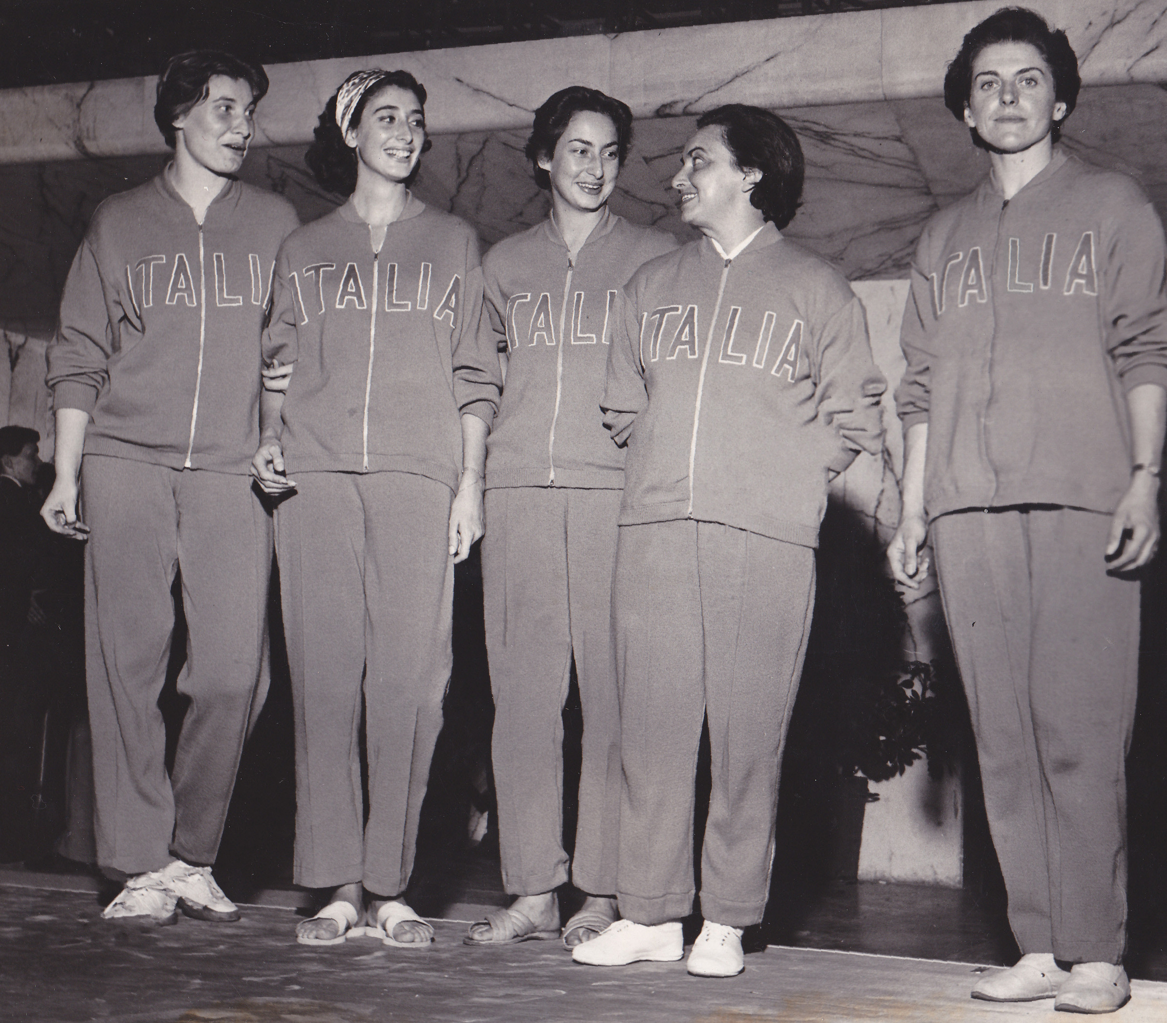 Italian women's foil team at the 1960 Olympics